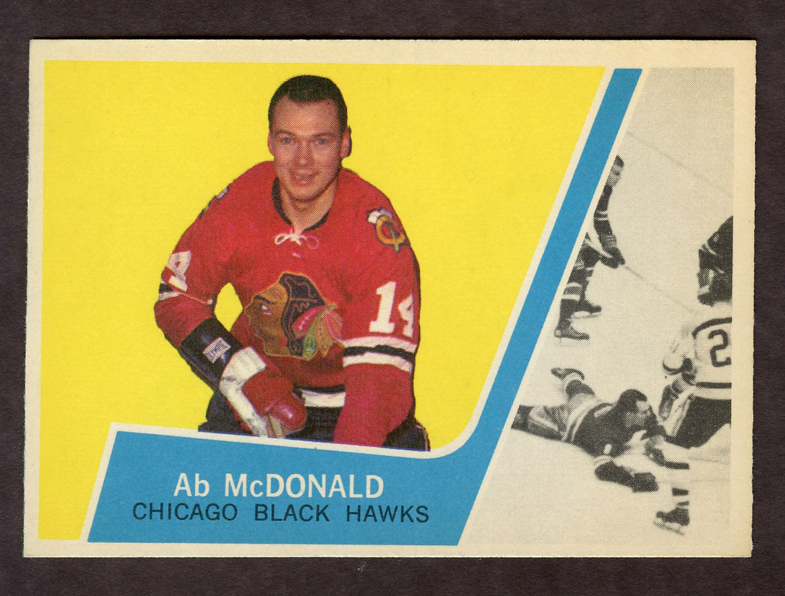 Ab McDonald